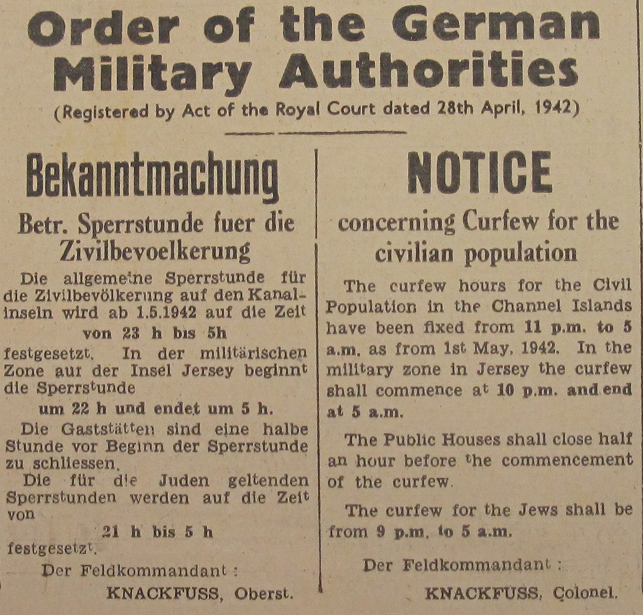 192: German decree from the Occupation of Jersey. The English text reads: Order of the German Military Authorities (registered by Act of the Royal Court dated 28th April, 1942) Notice Concerning Curfew for the civilian population:) The curfew hours for the Civil Population in the Channel Islands have been fixed from 11 p.m. to 5 a.m. as from 1st May, 1942. In the military zone in Jersey the curfew shall commence at 10 pm. and end at 5 a.m. The Public Houses shall close half an hour before the commencement of the curfew. The curfew for the Jews shall be from 9 p.m. to 5 a.m. Der Feldkommandt KNACKFUSS Colonel